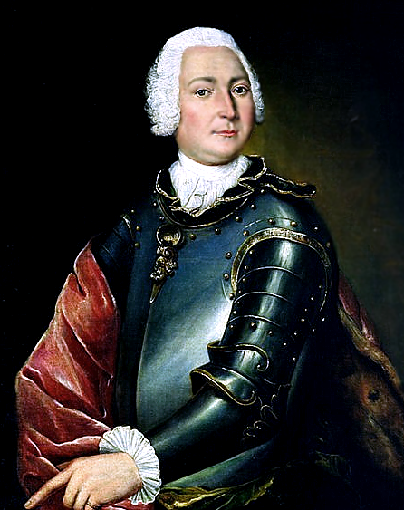 Ernst Christoph von Manteuffel